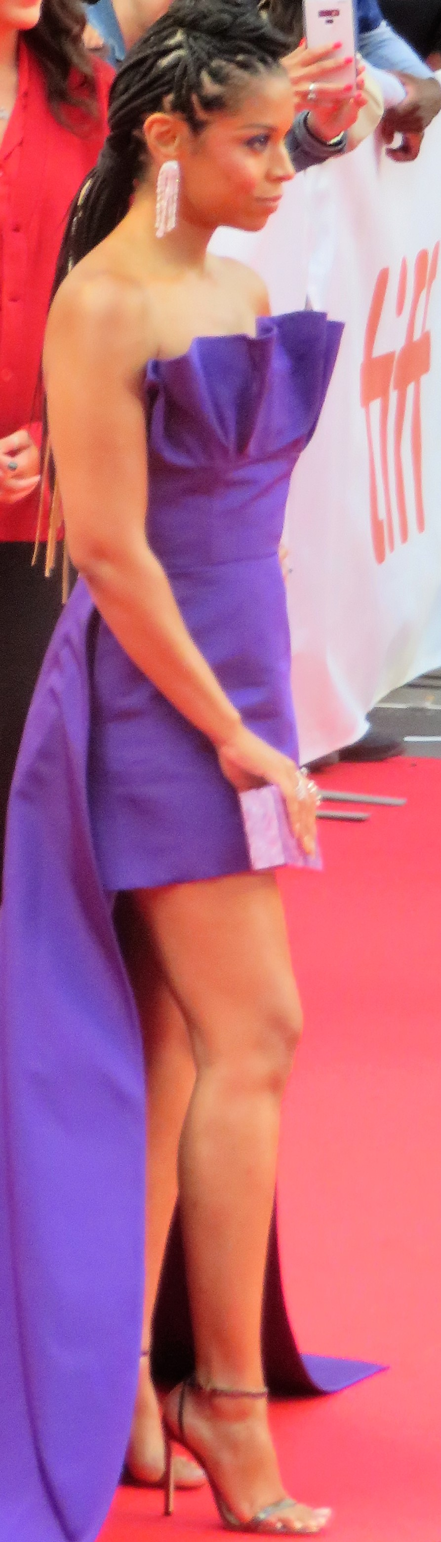 Susan Kelechi Watson at the premiere of A Beautiful Day in the Neighborhood, 2019 Toronto Film Festival